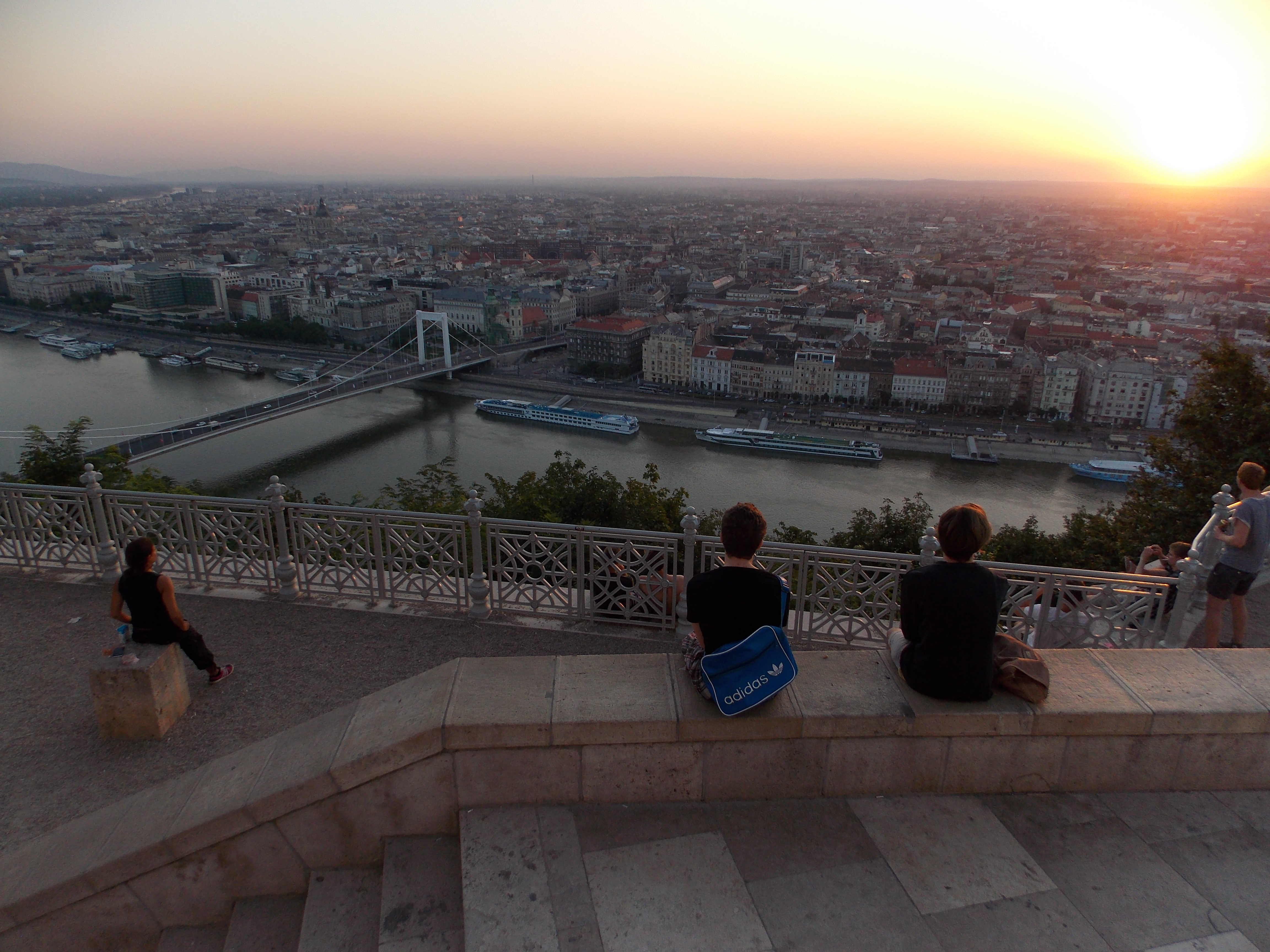 Sunrise above Budapest-Hungary from the Gellért hill